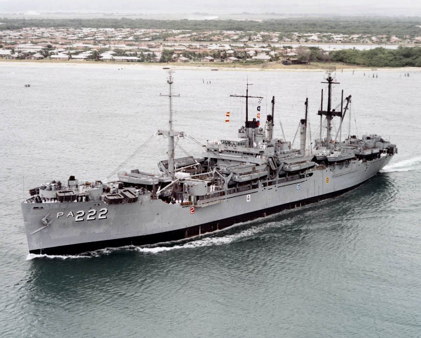 The U.S. Navy attack transport USS Pickaway (APA-222) underway in the Pearl Harbor channel, 28 April 1964.